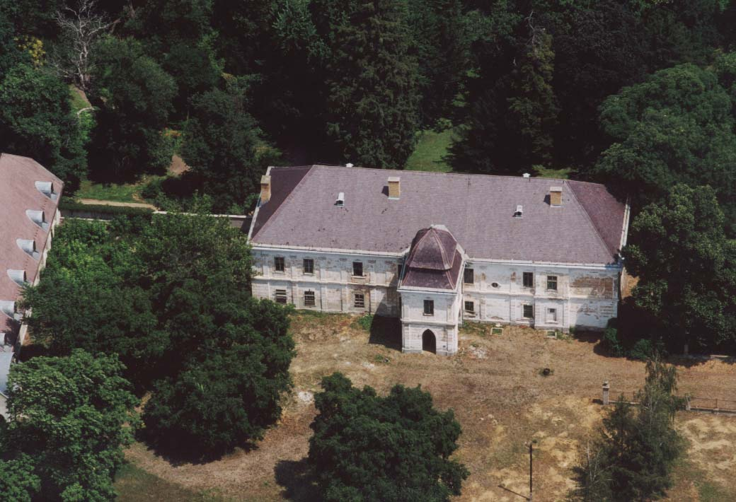 Palace - Erdőtelek - Hungary - Europe (Buttler Mansion)